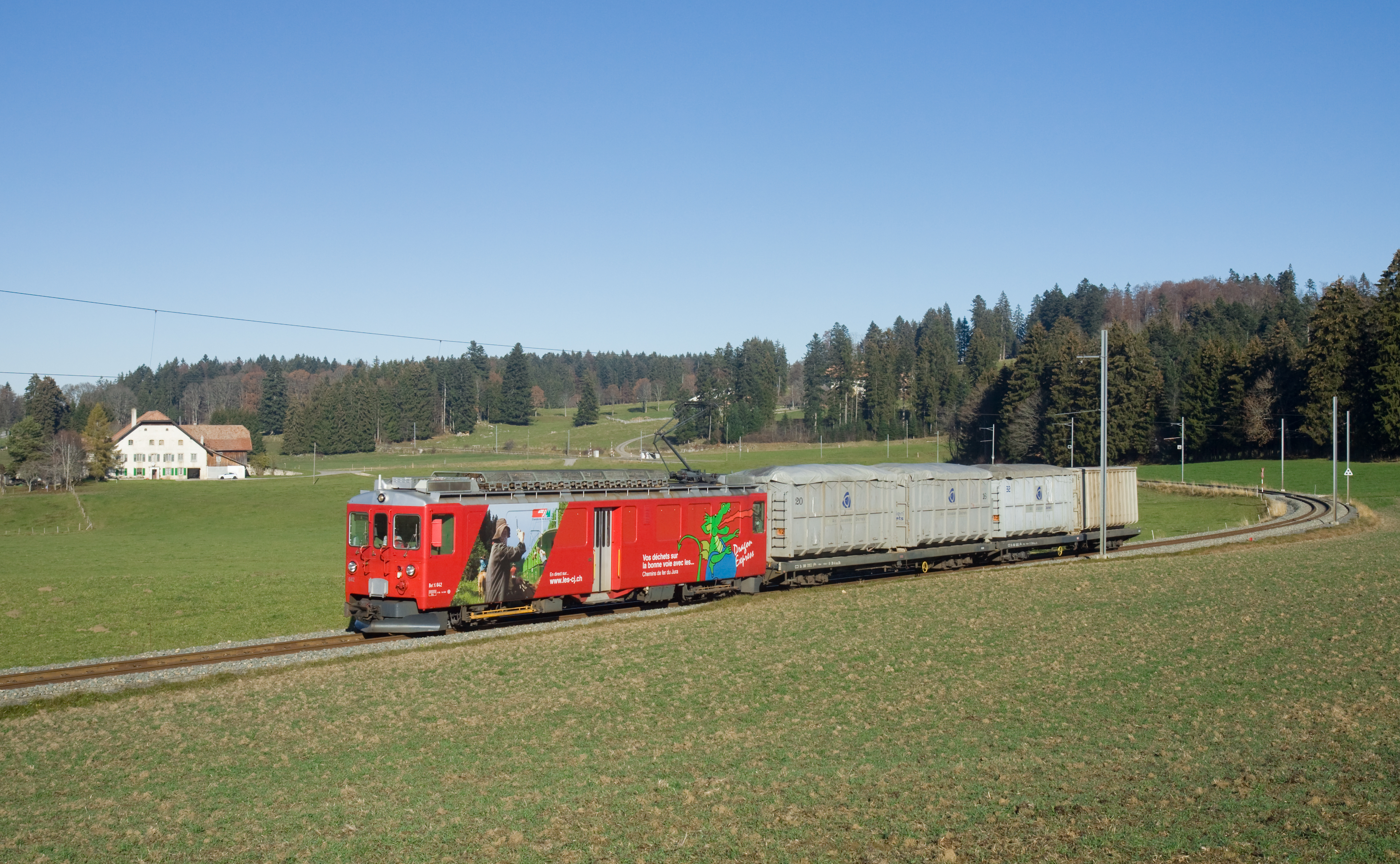 CJ ABe 4/4 multiple unit (formerly Chur-Arosa-Bahn, used there until the electrification system was changed to 11 kV AC in 1997) with a waste train on its way to La Chaux-de-Fonds. The transport of waste from Glovelier and Tavannes to La Chaux-de-Fonds is the most important freight service of the Chemins de fer du Jura.